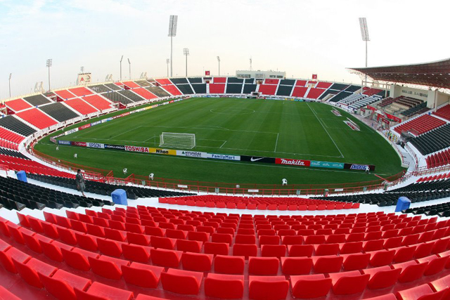 Al-rayyan-stadium